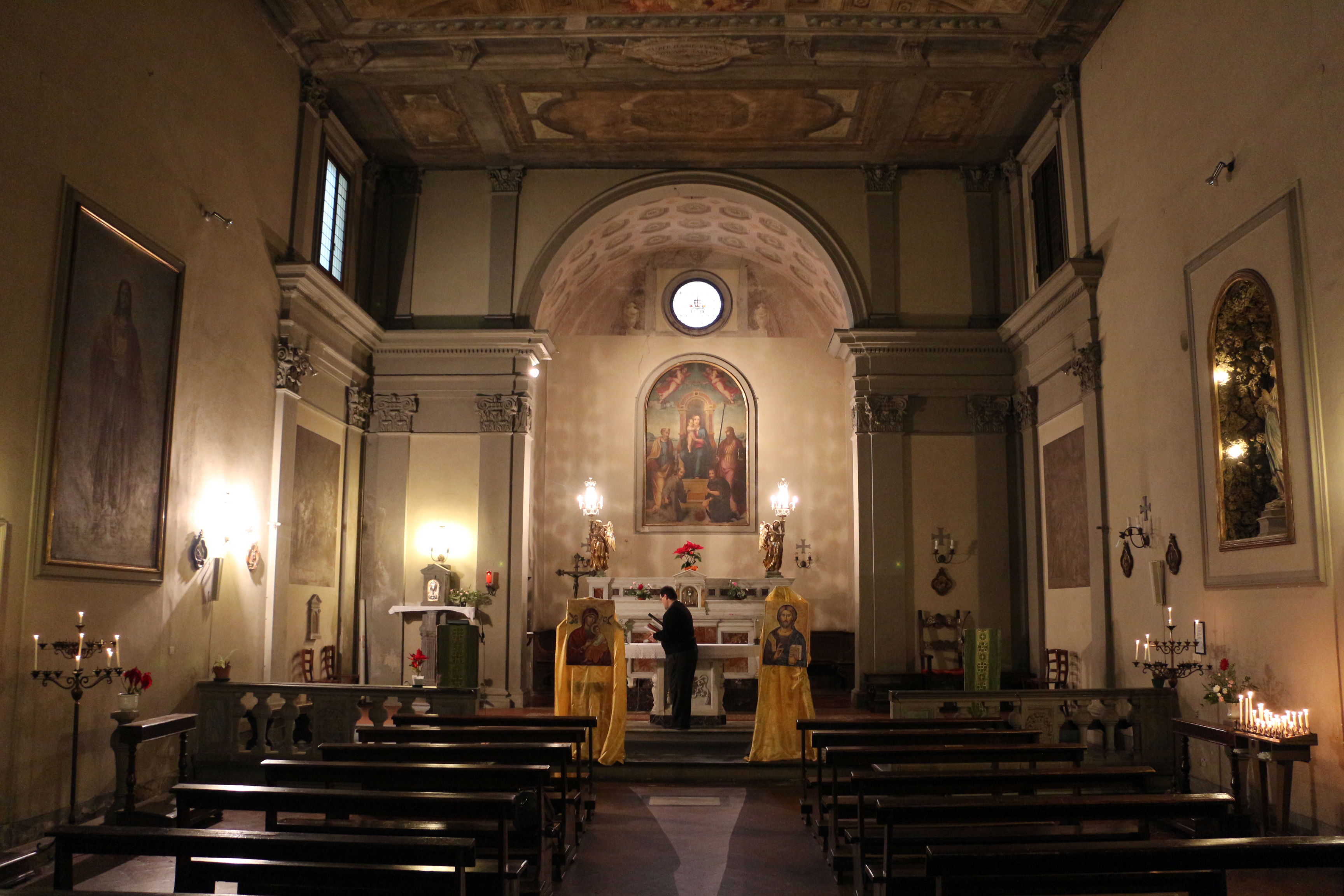 San Pier Gattolino